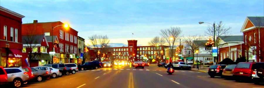 Downtown